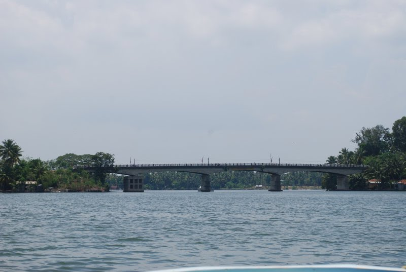 Thevally bridge,Kollam